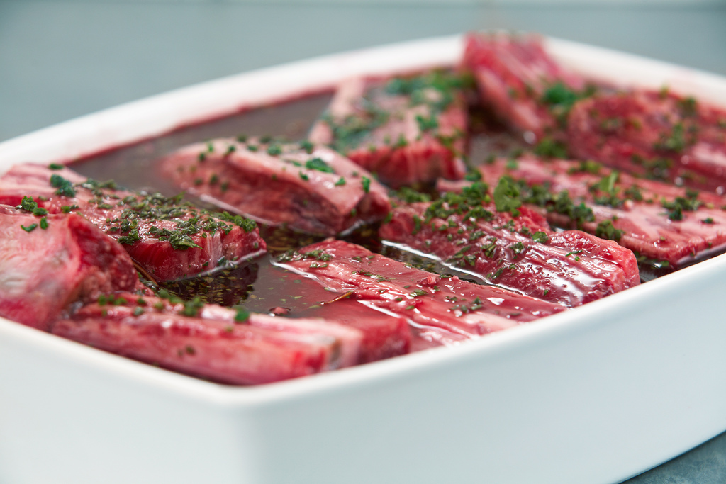 ShortRibs_04of9